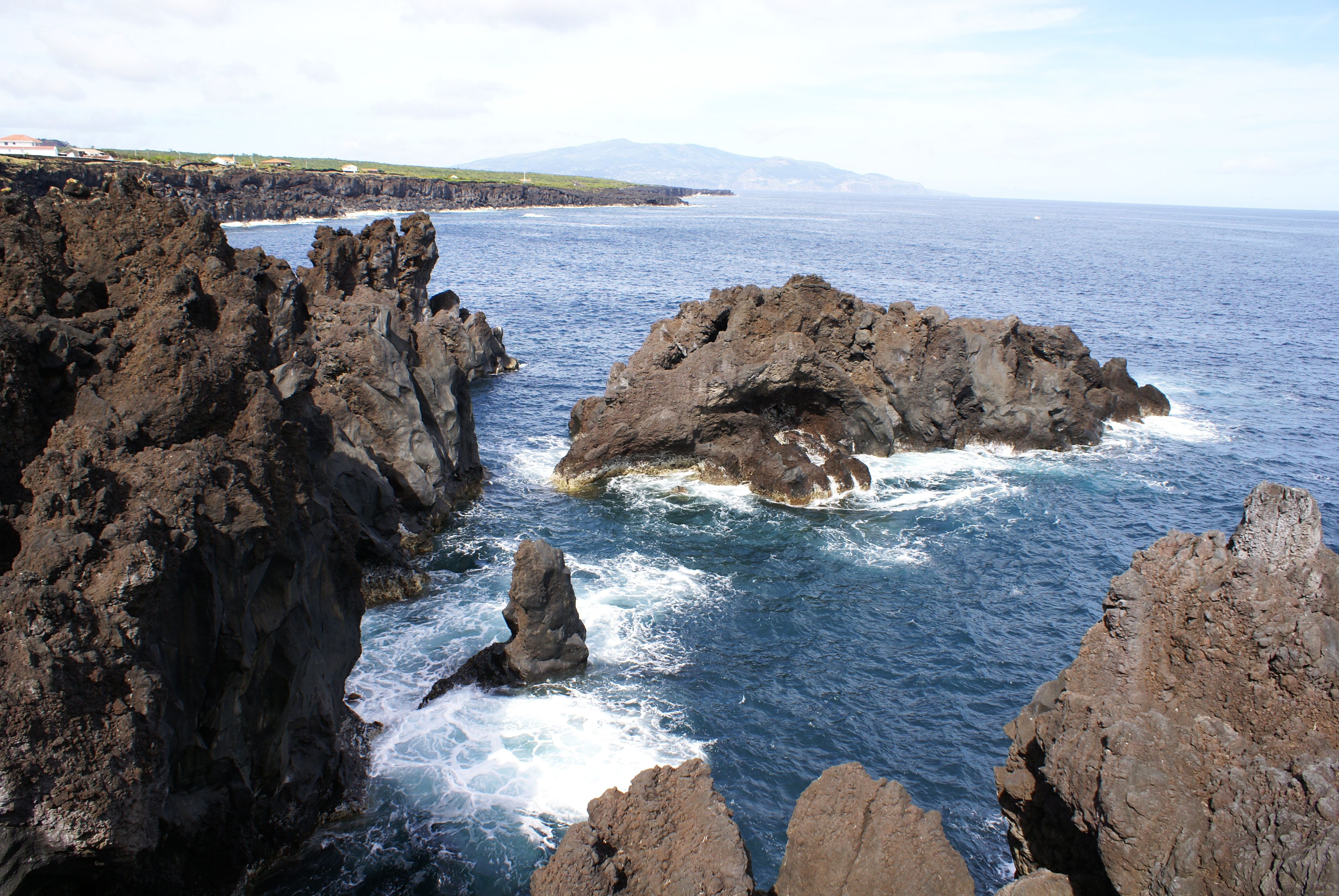 Arcos do Cachorro, aspecto da costa, Bandeiras, concelho da Madalena, ilha do Pico, Açores